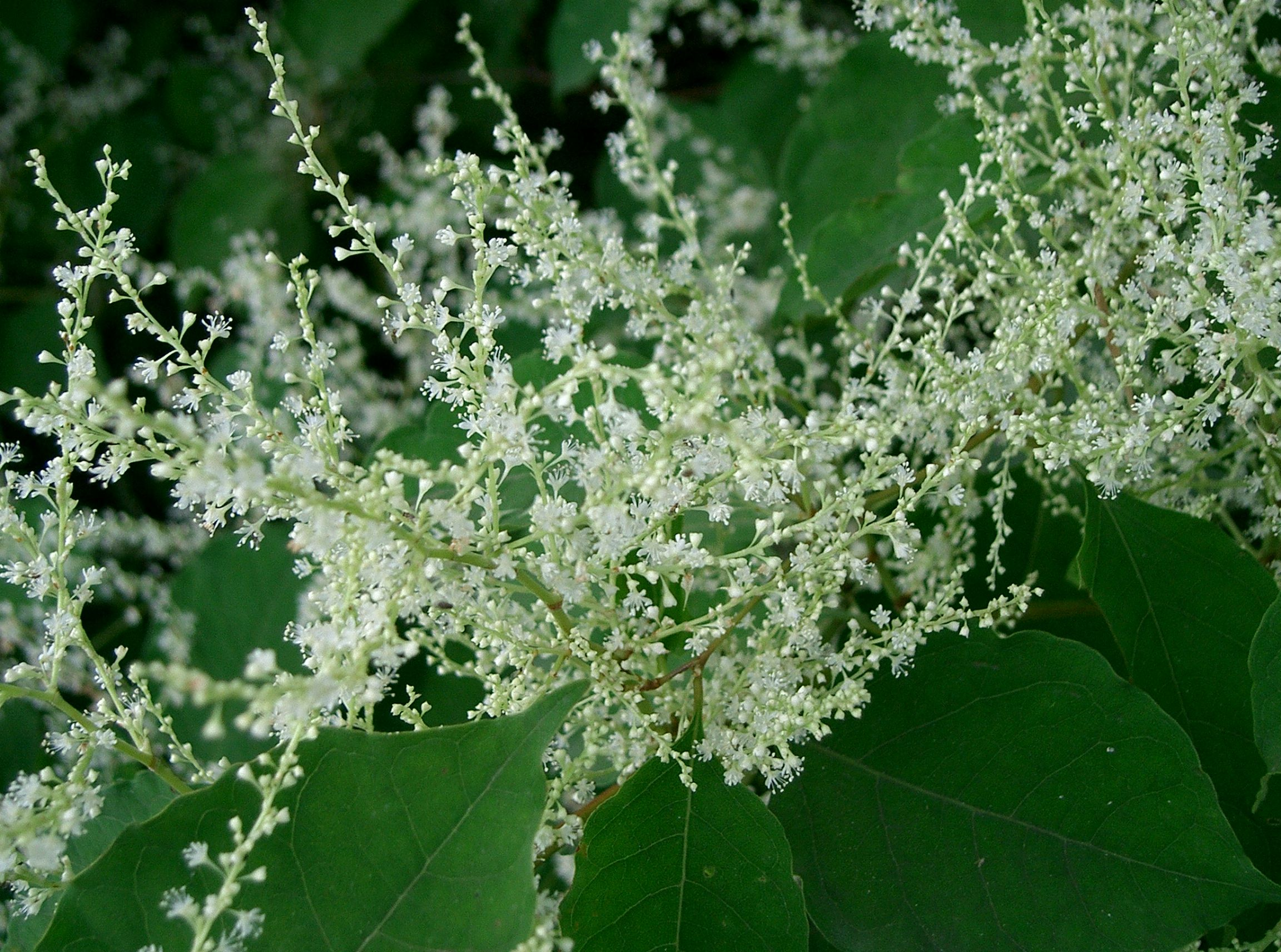 Japanese Knotweed Reynoutria japonica, Osaka-fu, Japan